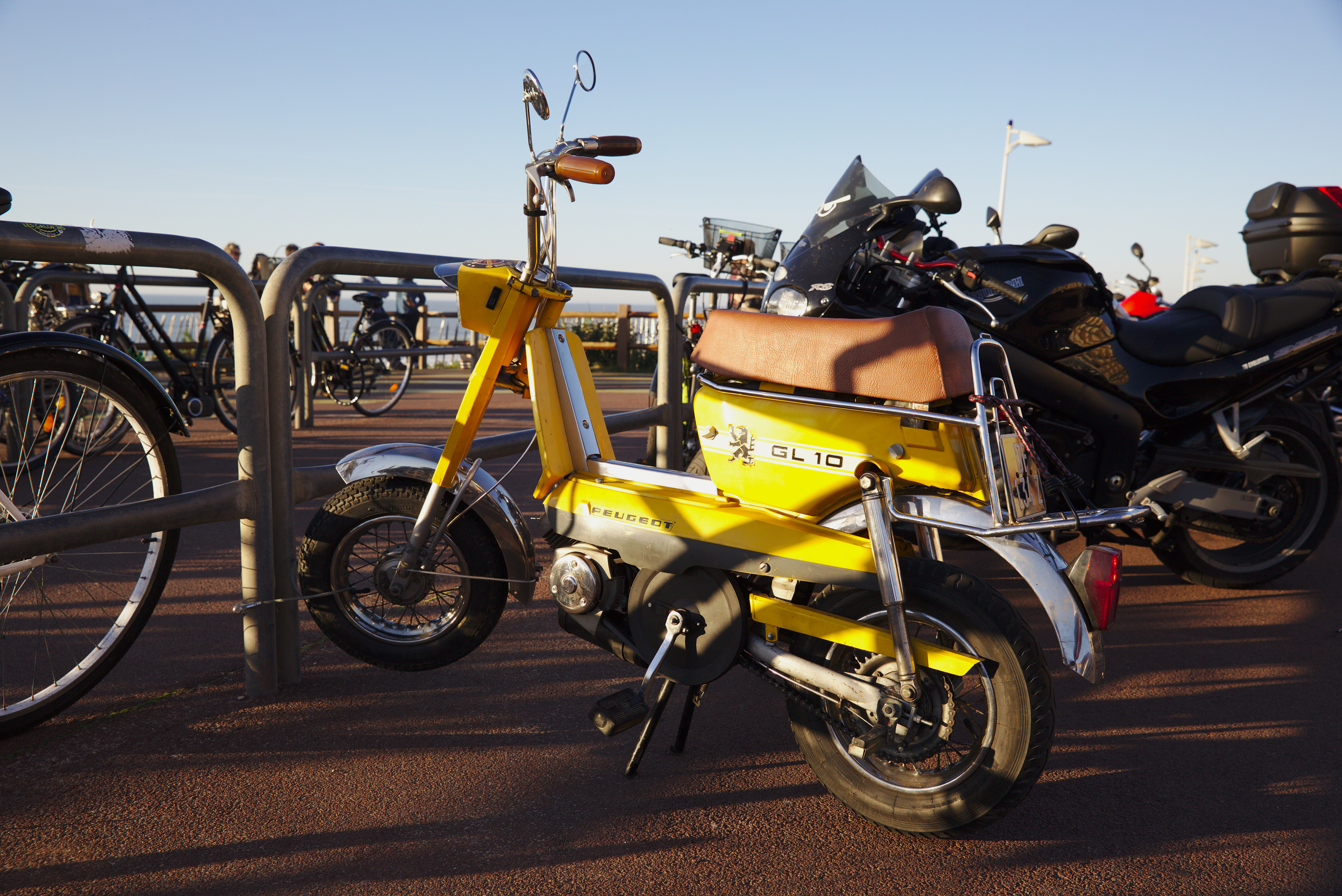 Peugeot GL 10